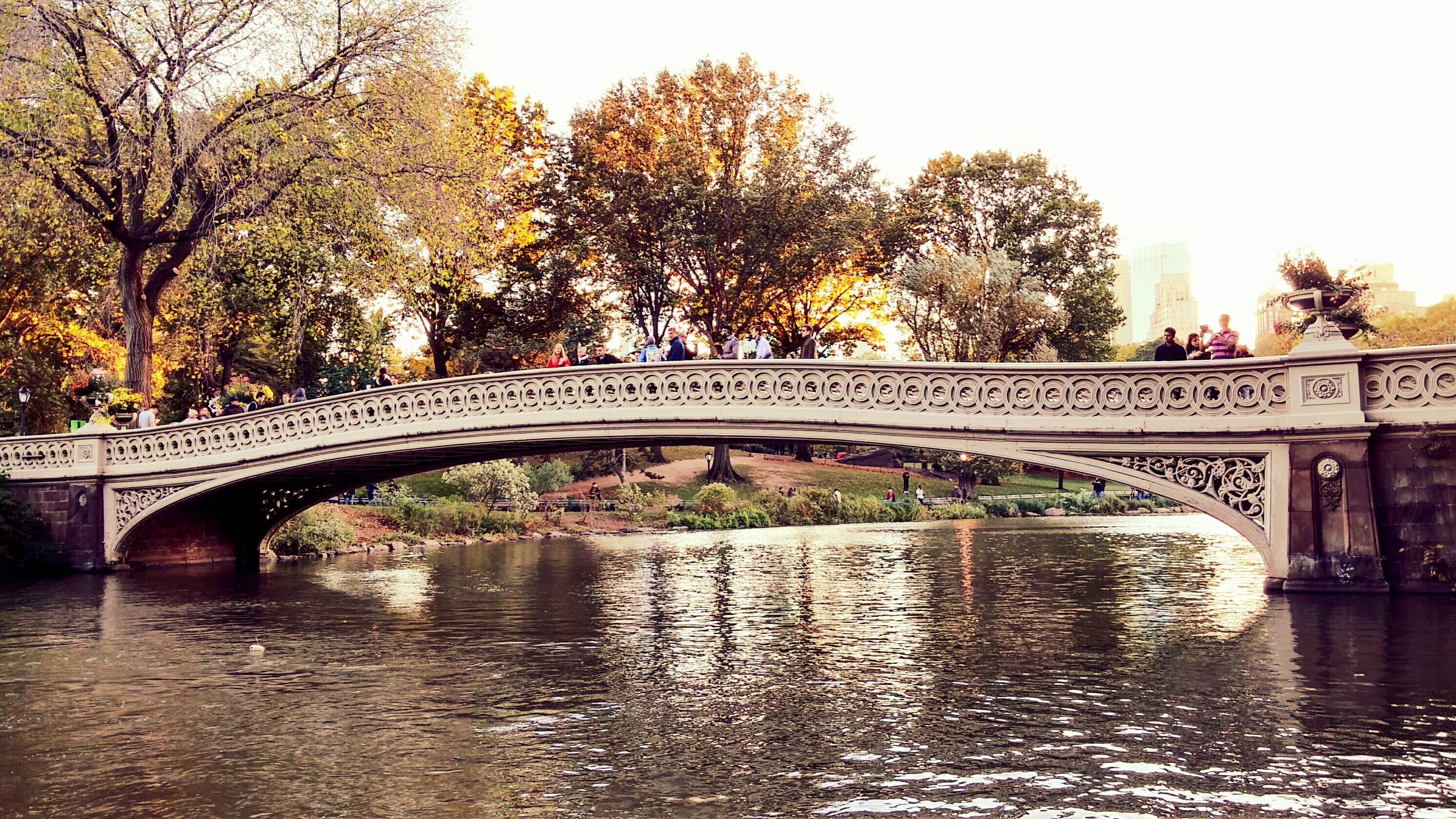 Bow Bridge - Central Park - New York, New York